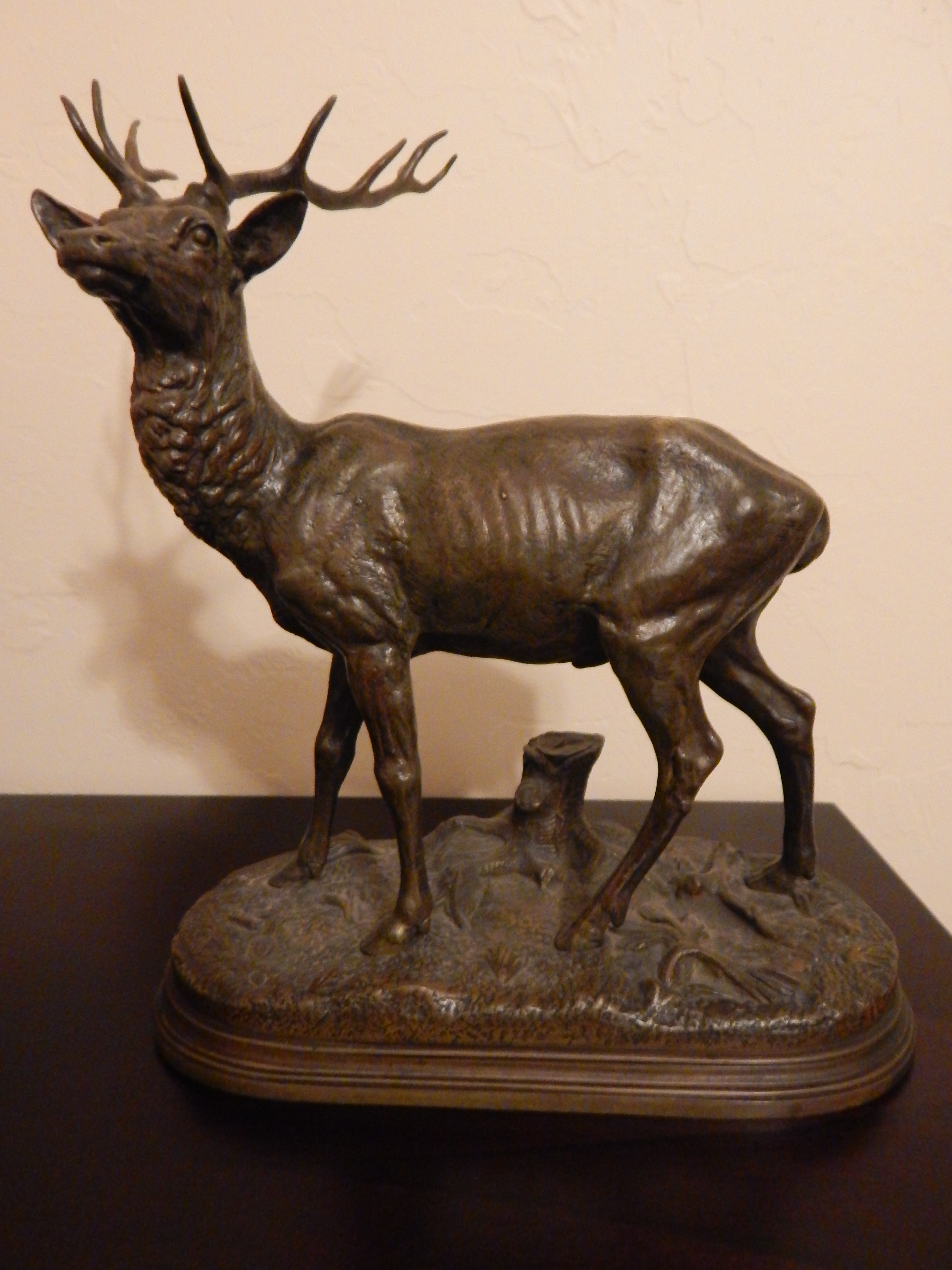 A bronze sculpture of a European stag by French animalier Alfred Dubucand, c. 1872